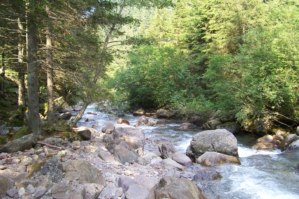 Allione river, Val Camonica